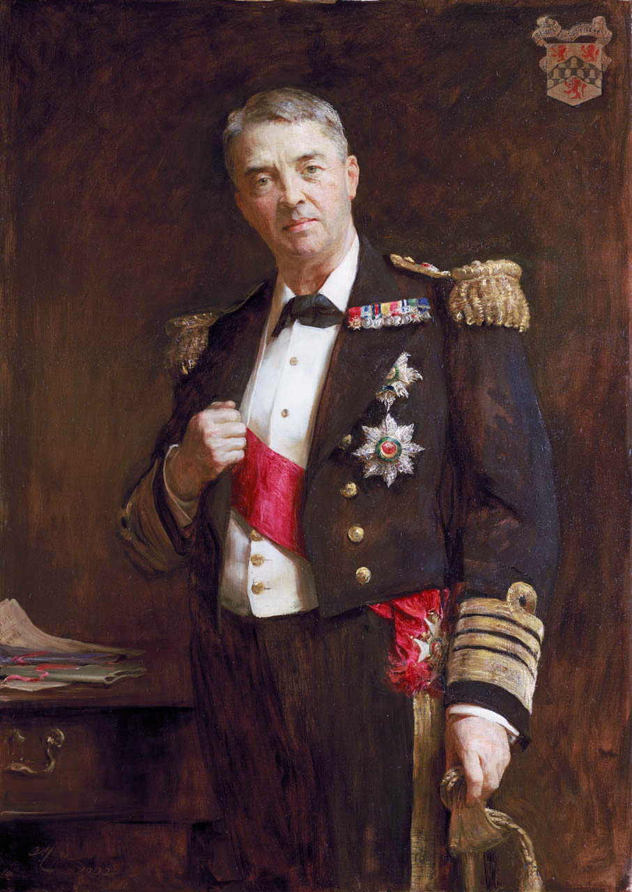 Admiral John Fisher (1841-1920), later Ist Viscount Fisher of Kilverstone oil on canvas 127 x 101.6 cm 1902